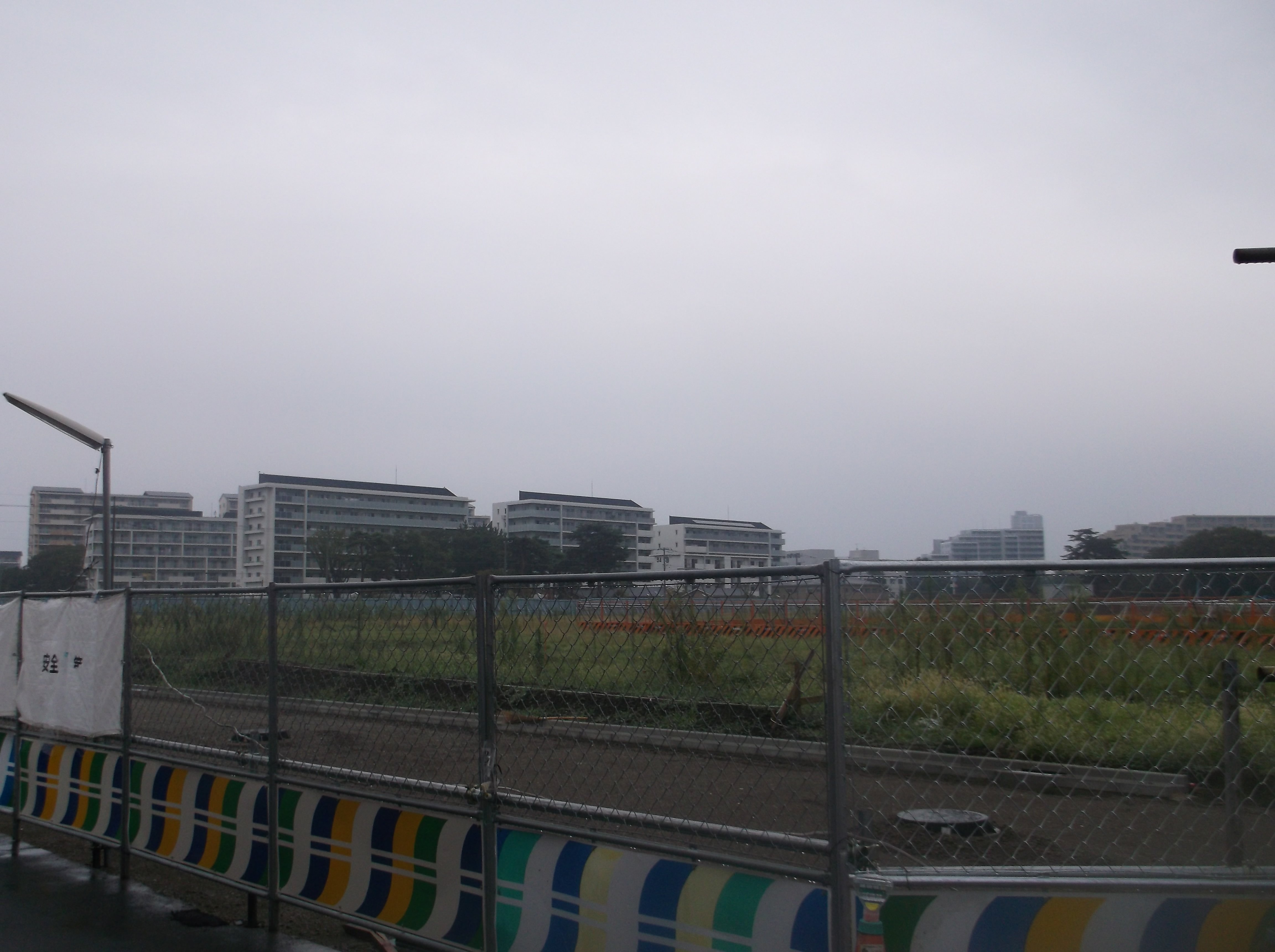 a photo of an overview of Hibarigaoka Apartment Complex(Danchi),Hibarigaoka,Nishitokyo city,Tokyo,Japan.